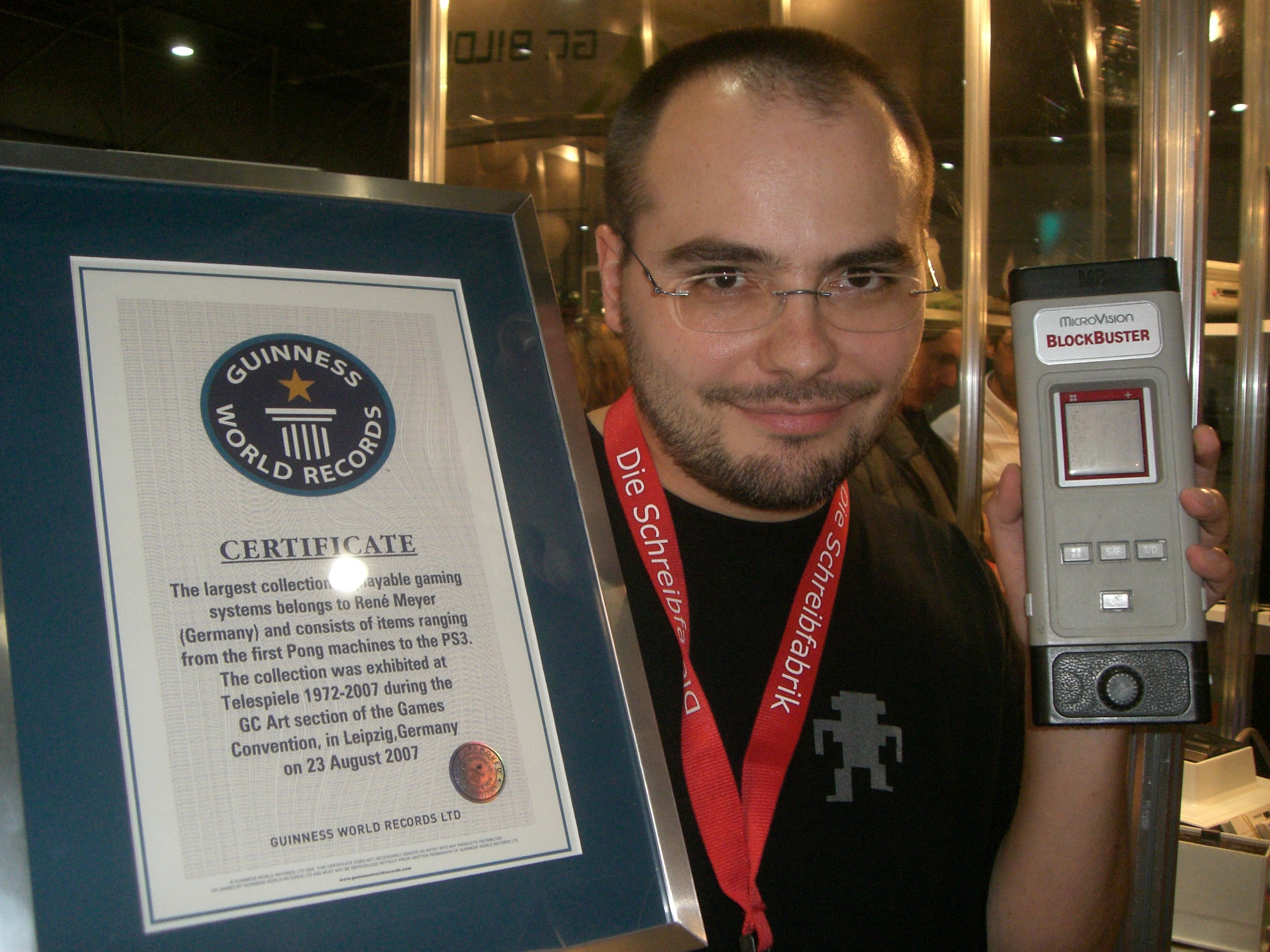 René Meyer